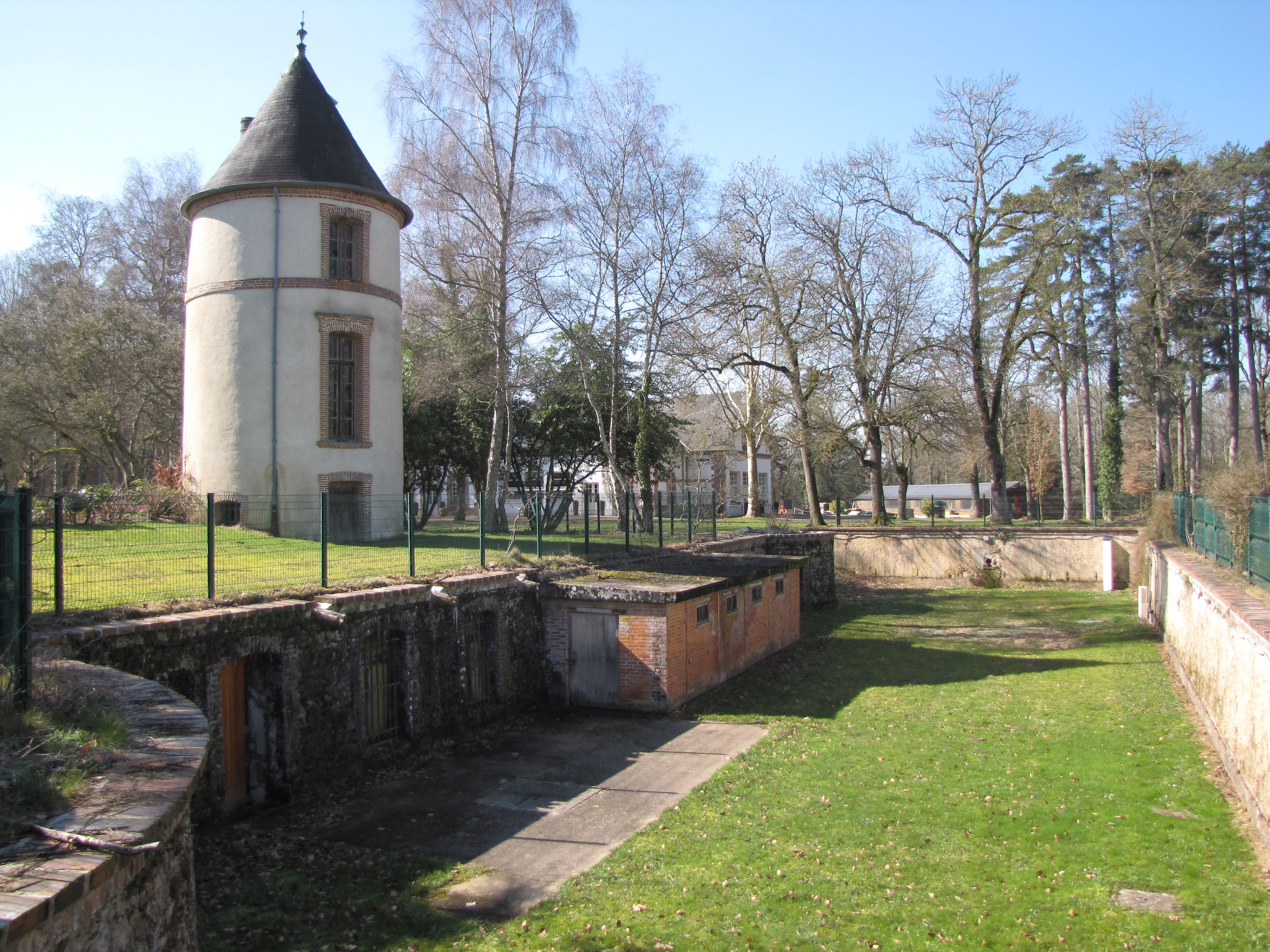 Saint-Martin-sur-Ouanne, Yonne, France. Domaine d'Hautefeuille. The moat that surrounded the castle d'Hautefeuille on the right hand-side of the castle entrance, now dry ; and a remaining turret.